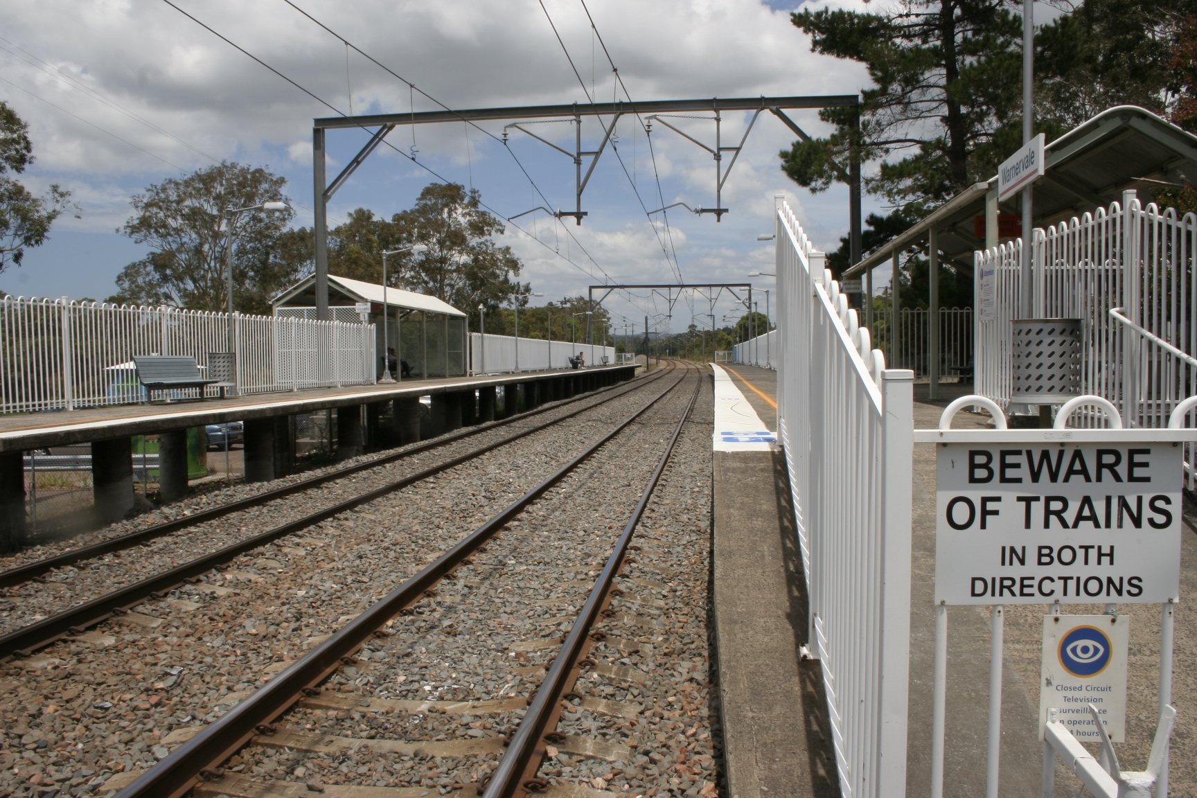 Warnervale railway station